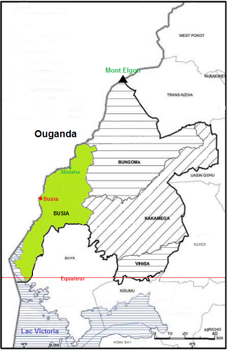 Localisation of busia County in Western Province (Kenya)